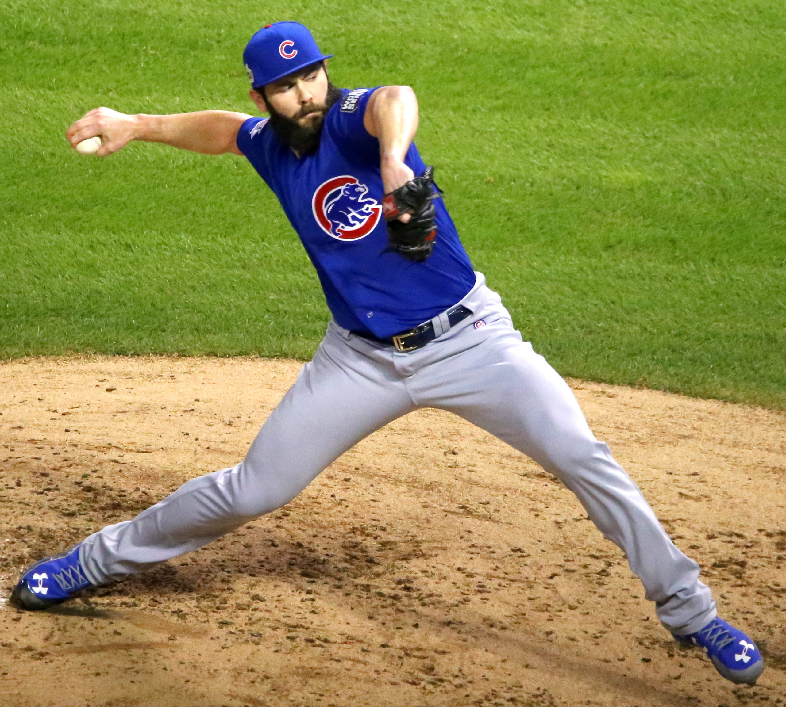 Cubs starter Jake Arrieta delivers a pitch in the first inning of World Series Game 6.